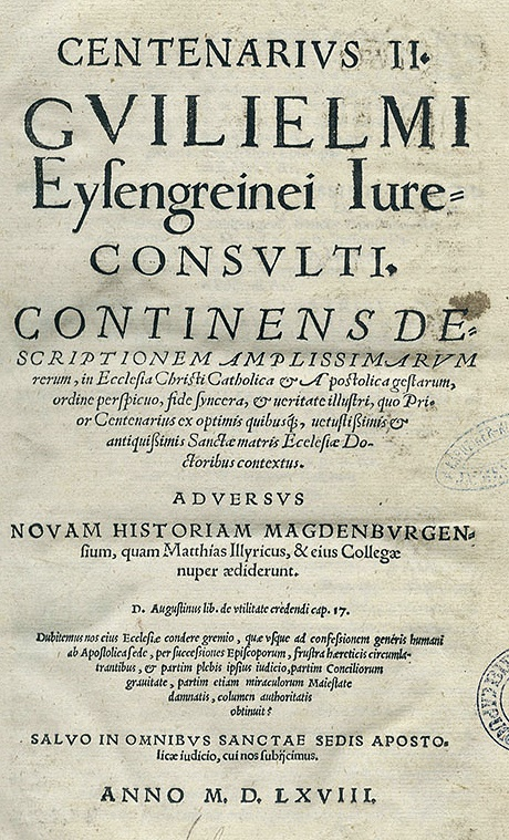 Buchtitelblatt von Wilhelm Eisengrein, 1568